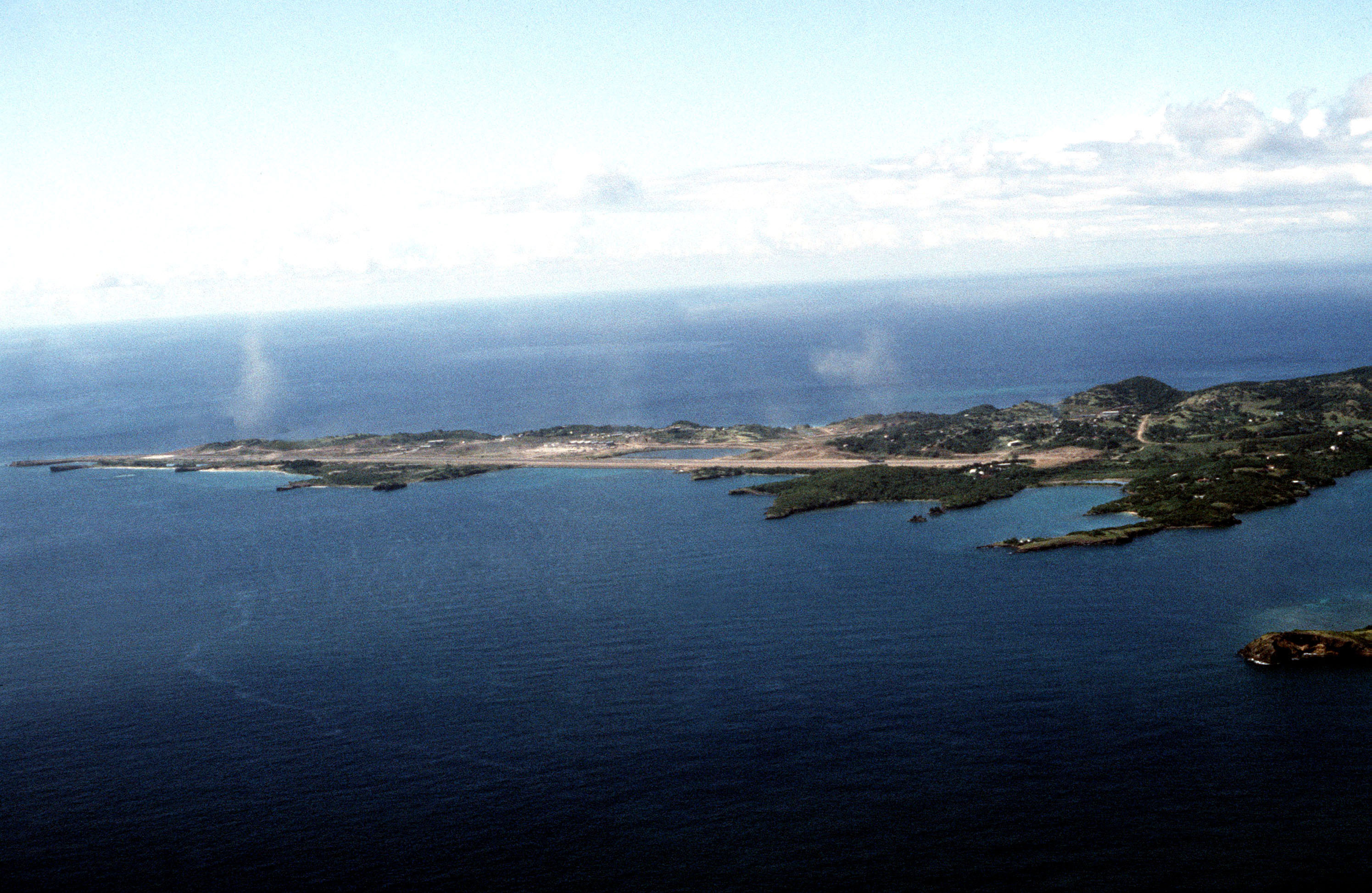 An aerial view of the runway at Point Salines Airport.